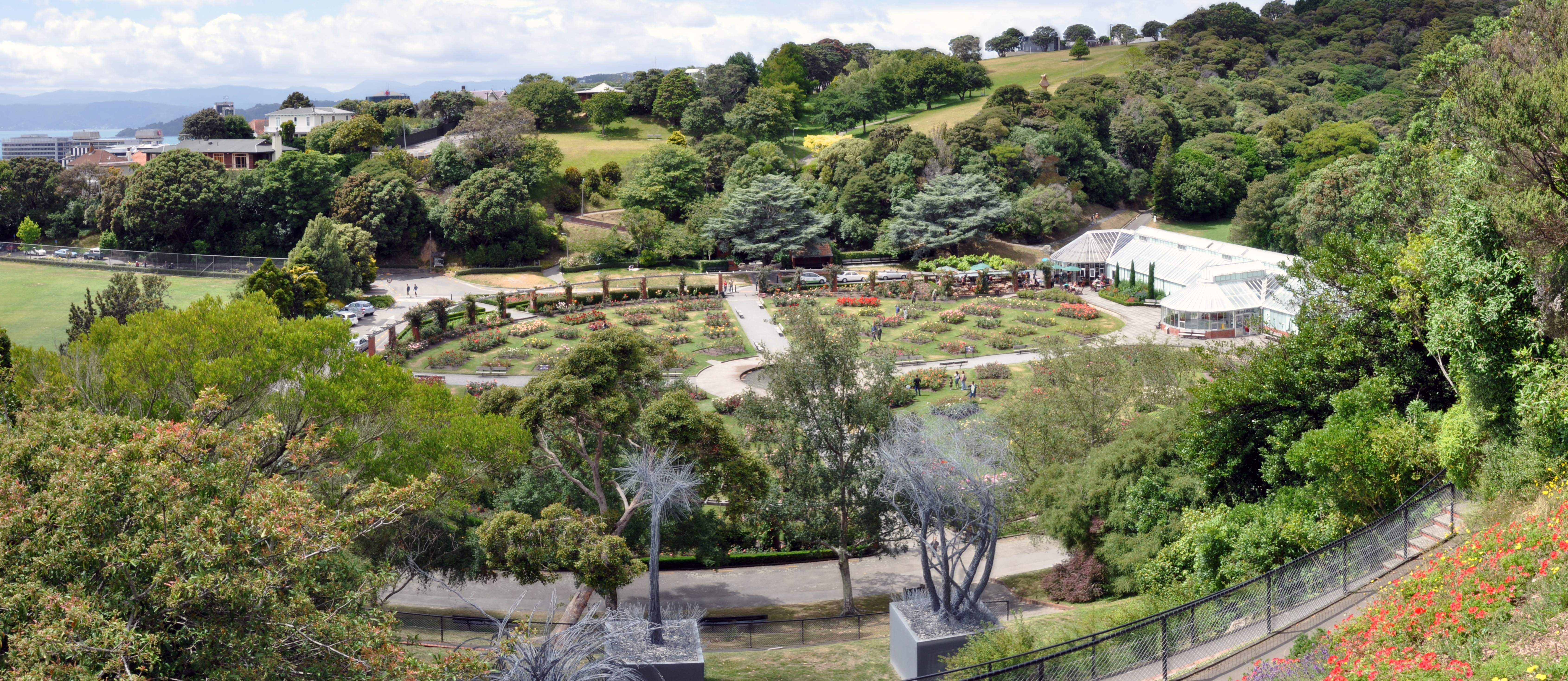 Lady Norwood rose garden panorama with sculpture in foreground Wellington Botanic Garden New Zealand